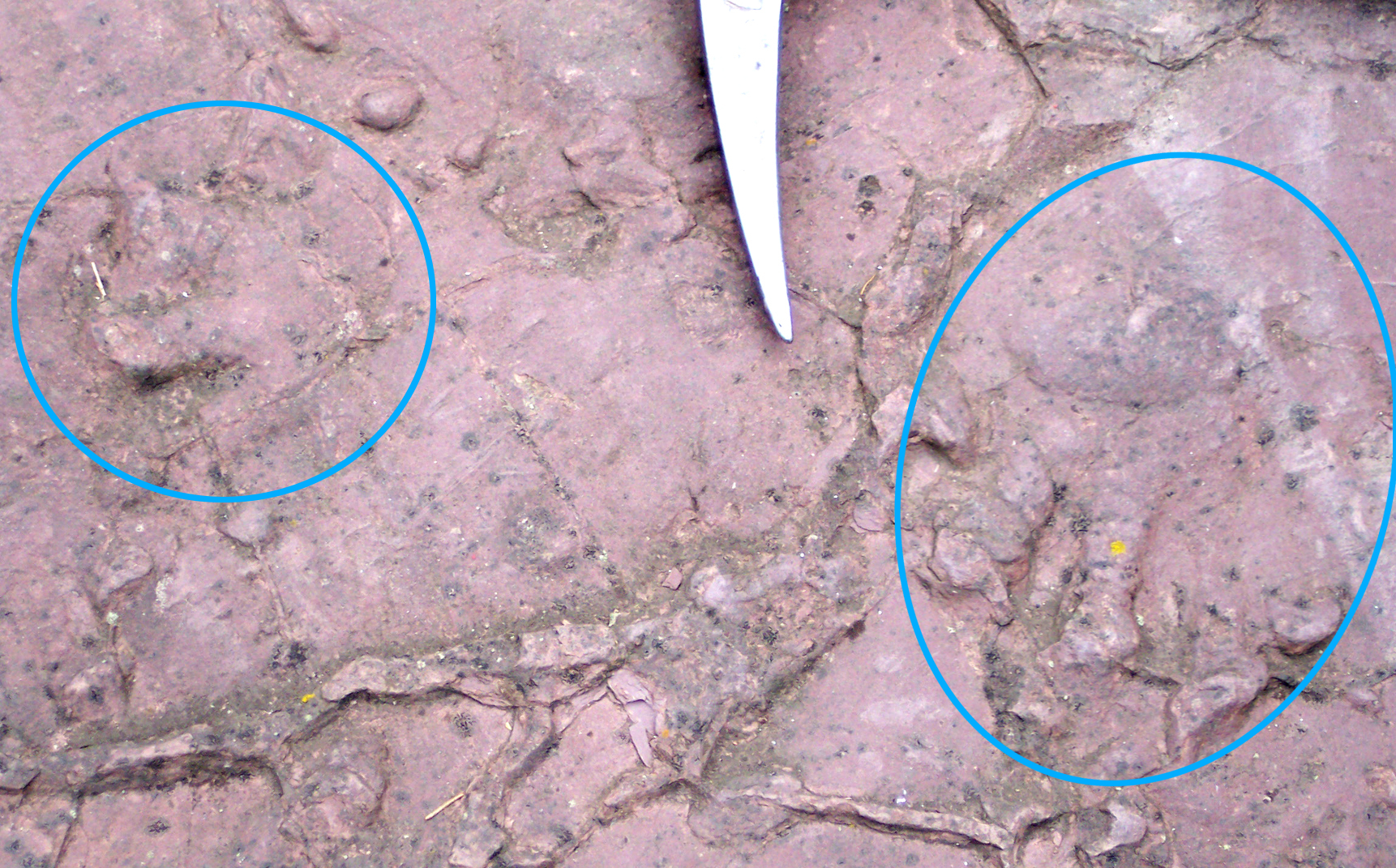 Casts of tetrapod footprints on the lower surface of a layer of the Tambach Sandstone exhibited at the Bromacker quarries at the outskirts of Tambach-Dietharz, Thuringia, Germany. The footprint in the right half of the image belongs to the ichnogenus Ichniotherium which probably was made by a reptile-like basal tetrapod of the family Diadectidae[1]. Besides the footprints the image shows casts of mudcracks and several other trace fossils. ↑ a b Sebastian Voigt, David S. Berman, Amy C. Henrici (2007): First well-established track-trackmaker association of Paleozoic tetrapods based on Ichniotherium trackways and diadectid skeletons from the lower Permian of Germany. Journal of Vertebrate Paleontology. 27(3): 553-570